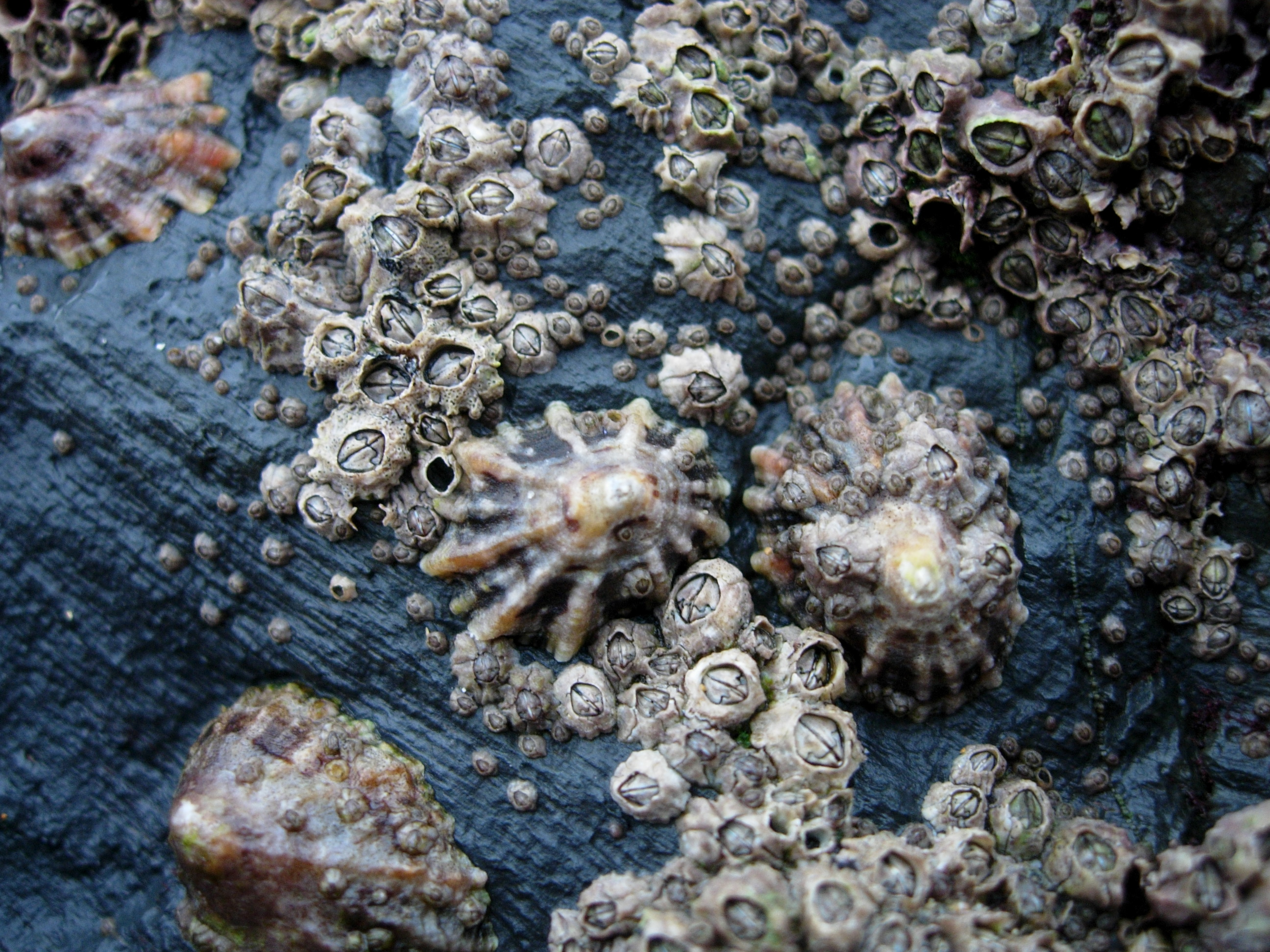 Barnacles (Chthamalus stellatus) and Limpets (Patella vulgata) in the intertidal near Newquay, Cornwall, England.